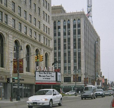 self made